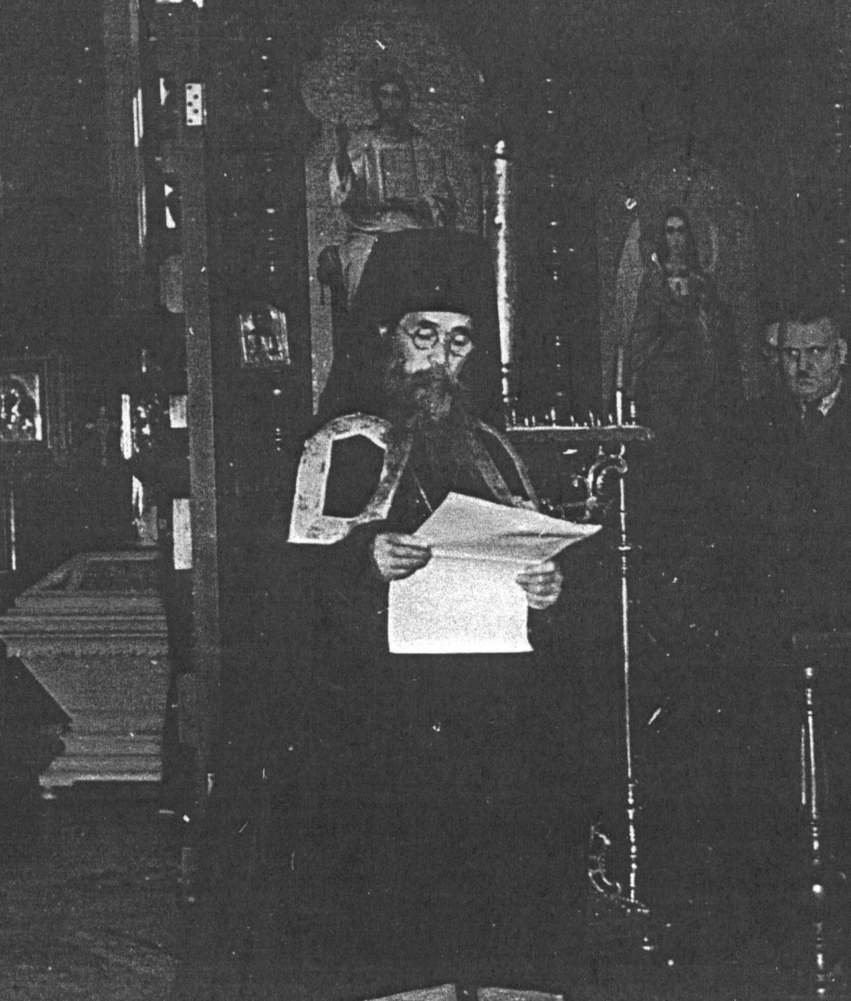 Archimandrite Nicholas (Ono) of the Japanese Orthodox Church reading his nomination homily in the ROCOR Cathedral in Harbin. The next morning, he was consecrated a Bishop.